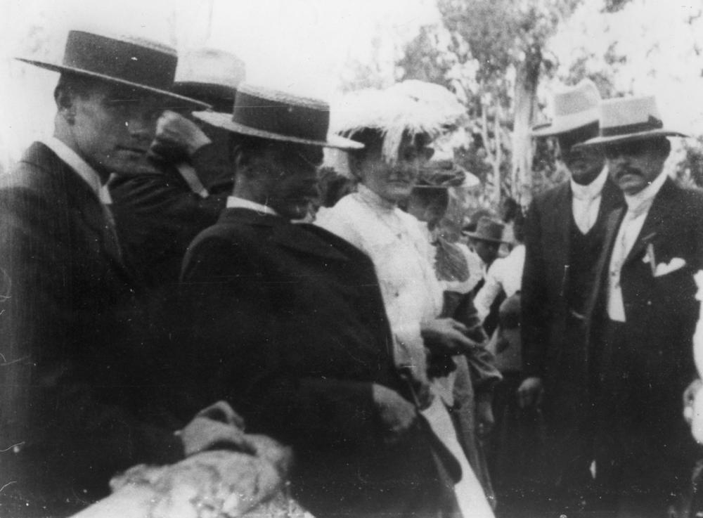 Patrons at Yandina race day, ca. 1905 Billy Doig and Agnes Low attending a race meeting at Yandina.